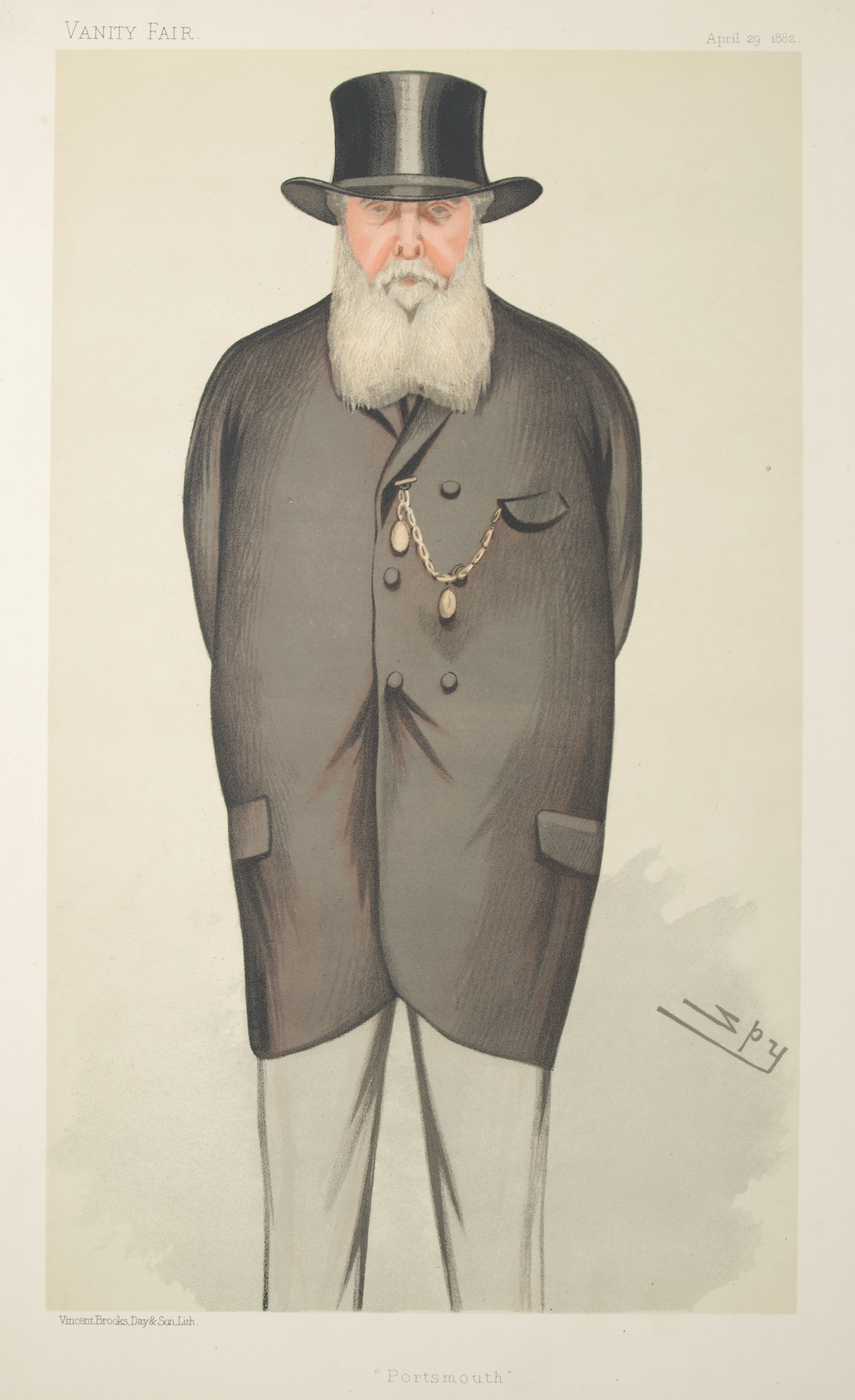 Statesmen No.398: Caricature of The Hon Thomas Charles Bruce MP. Caption reads: "Portsmouth"